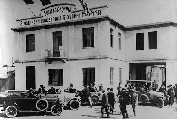 12 Corso Tortona in Turin, buildings of the coachbuilder Stabilimenti Farina owned by Giuseppe Carlo Farina between 1906 and 1953.